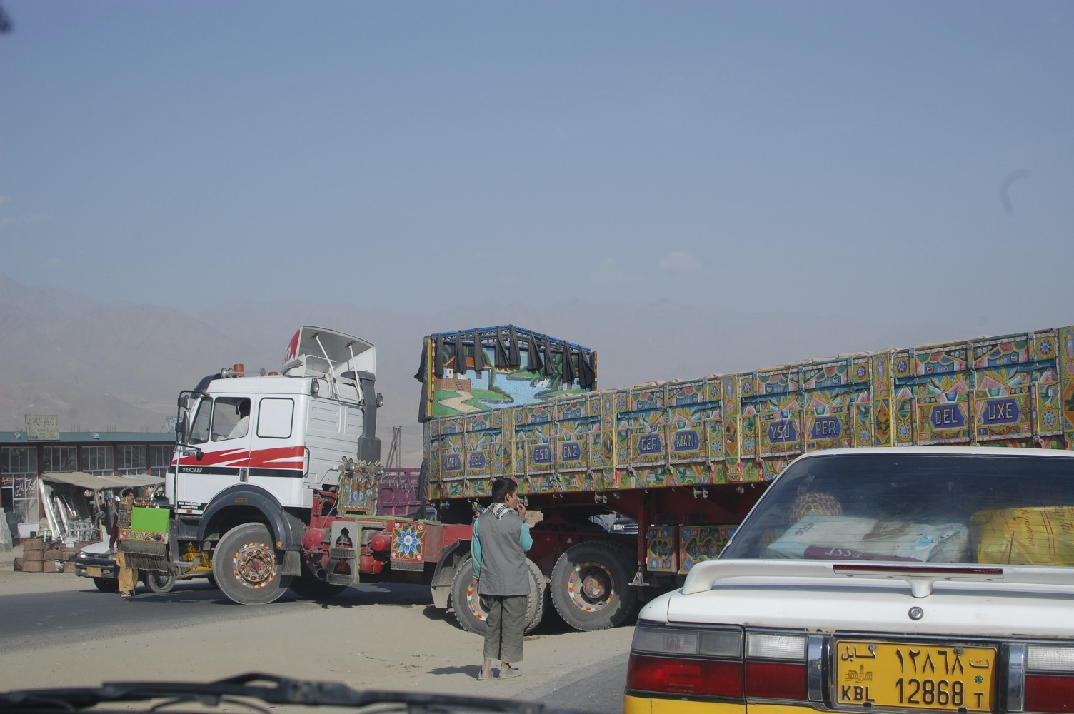 Mercedes-Benz-based jingle truck in Afghanistan.